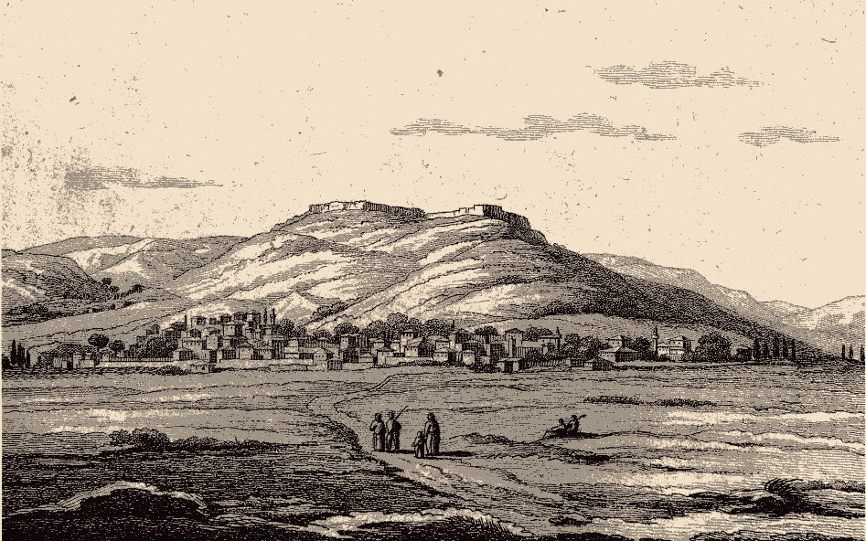 Farsala